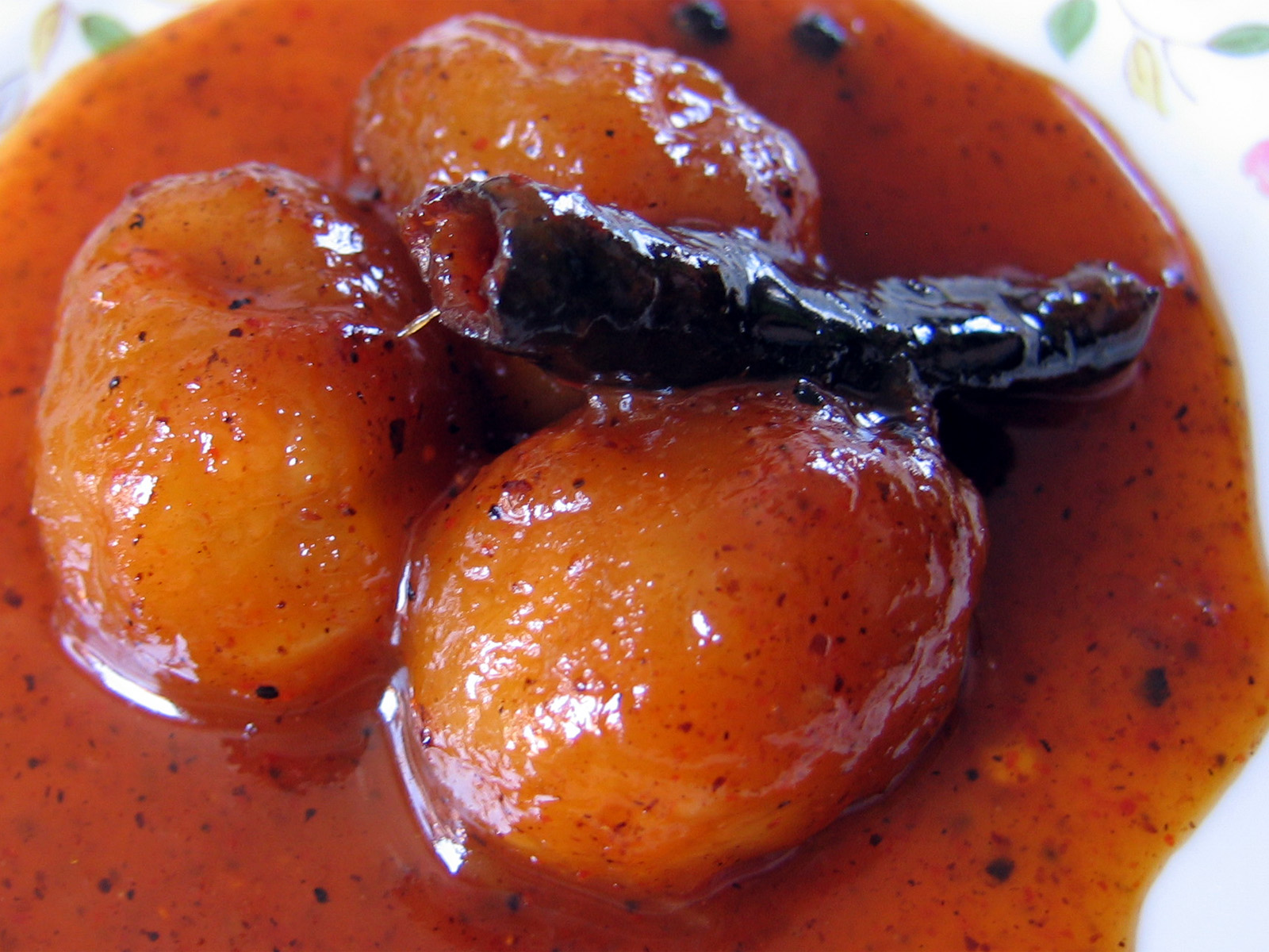 Amali achar is very popular pickle in newar community of Nepal. Sweet and sour test of it activates all test buds of mouth :) i simply love it.